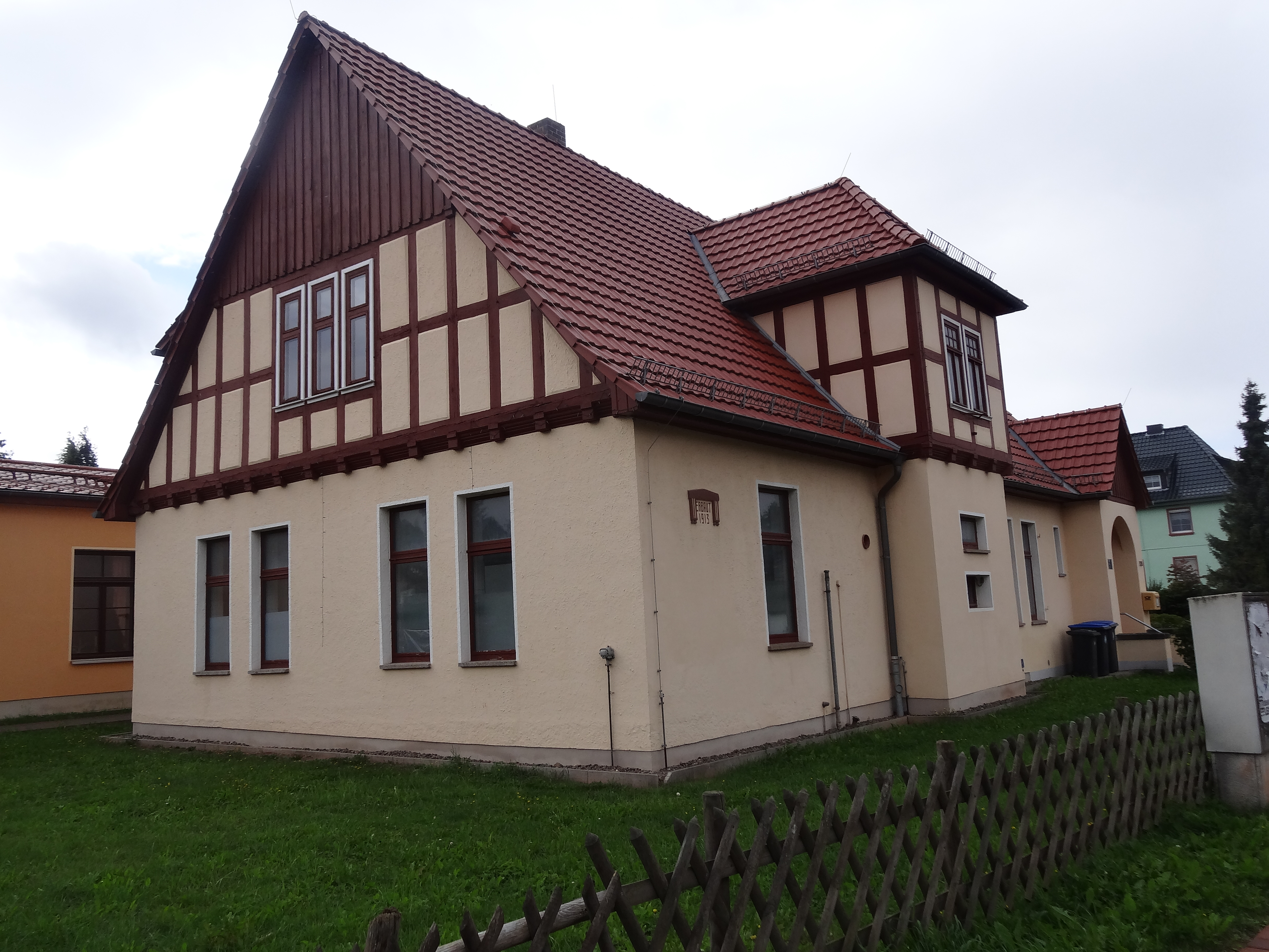 City hall of Lipprechterode, Thuringia, Germany